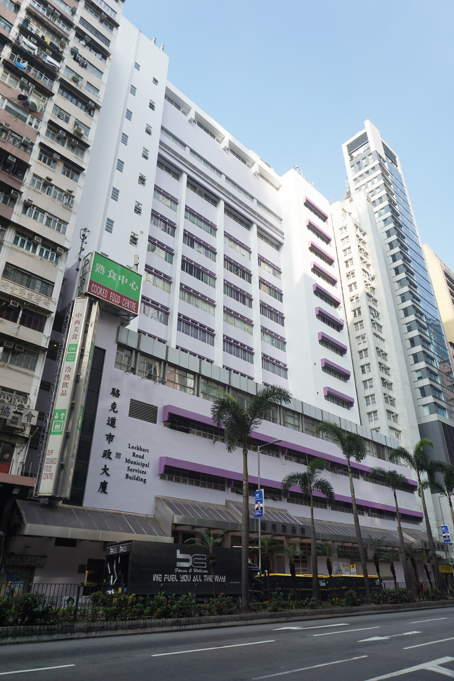 Lockhart Road Municipal Services Building in Wan Chai, Hong Kong.